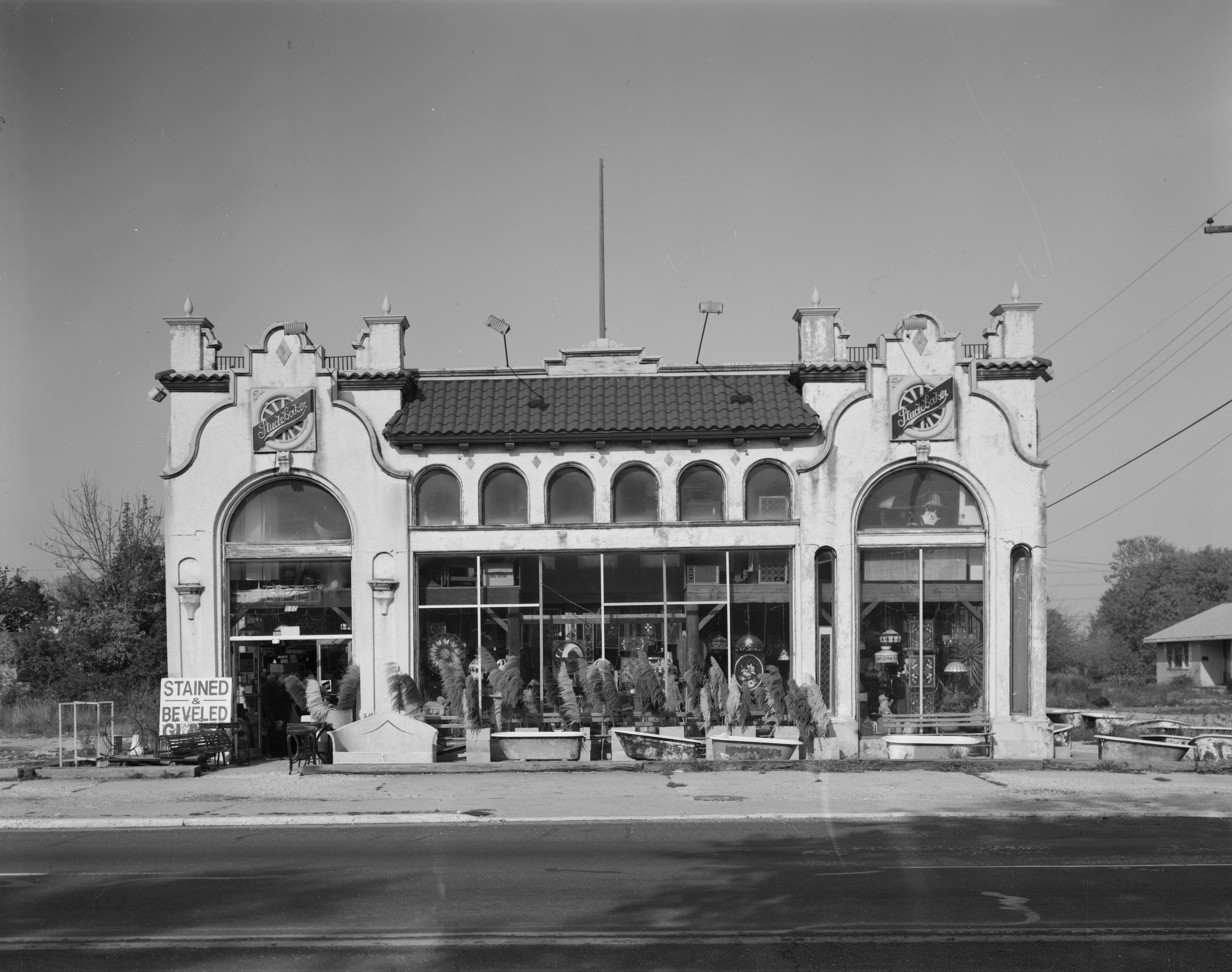 Cropped verion of our 2. PERSPECTIVE VIEW OF SOUTH AND WEST SIDES LOOKING NORTHEAST - Studebaker Dealership, U.S. Highway 40, Pleasantville, Atlantic County, NJ, 7006 E. Black Horse Pike, converted to jpeg